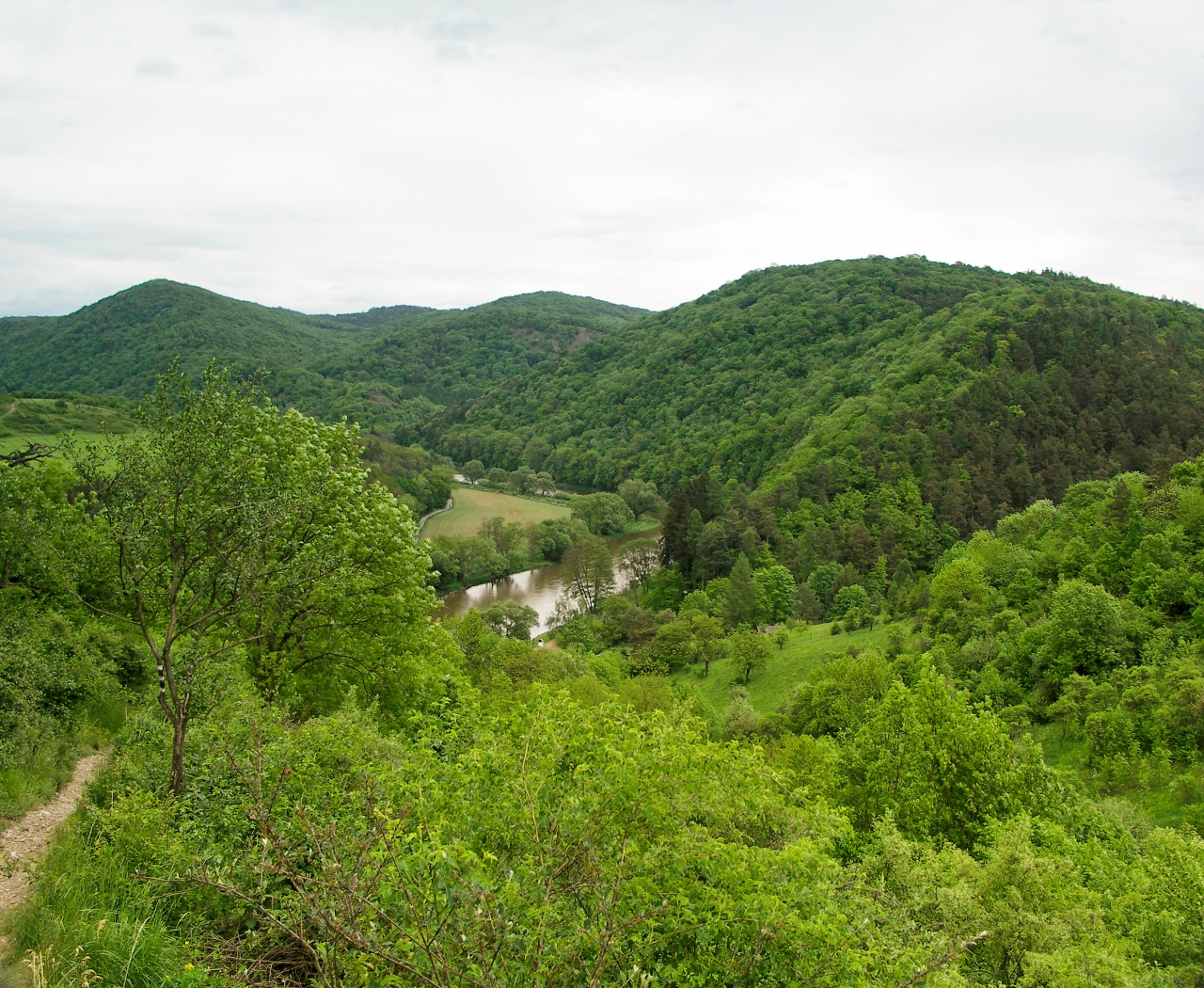 Týřov (CZE) - viwe at the reserve from Skryje